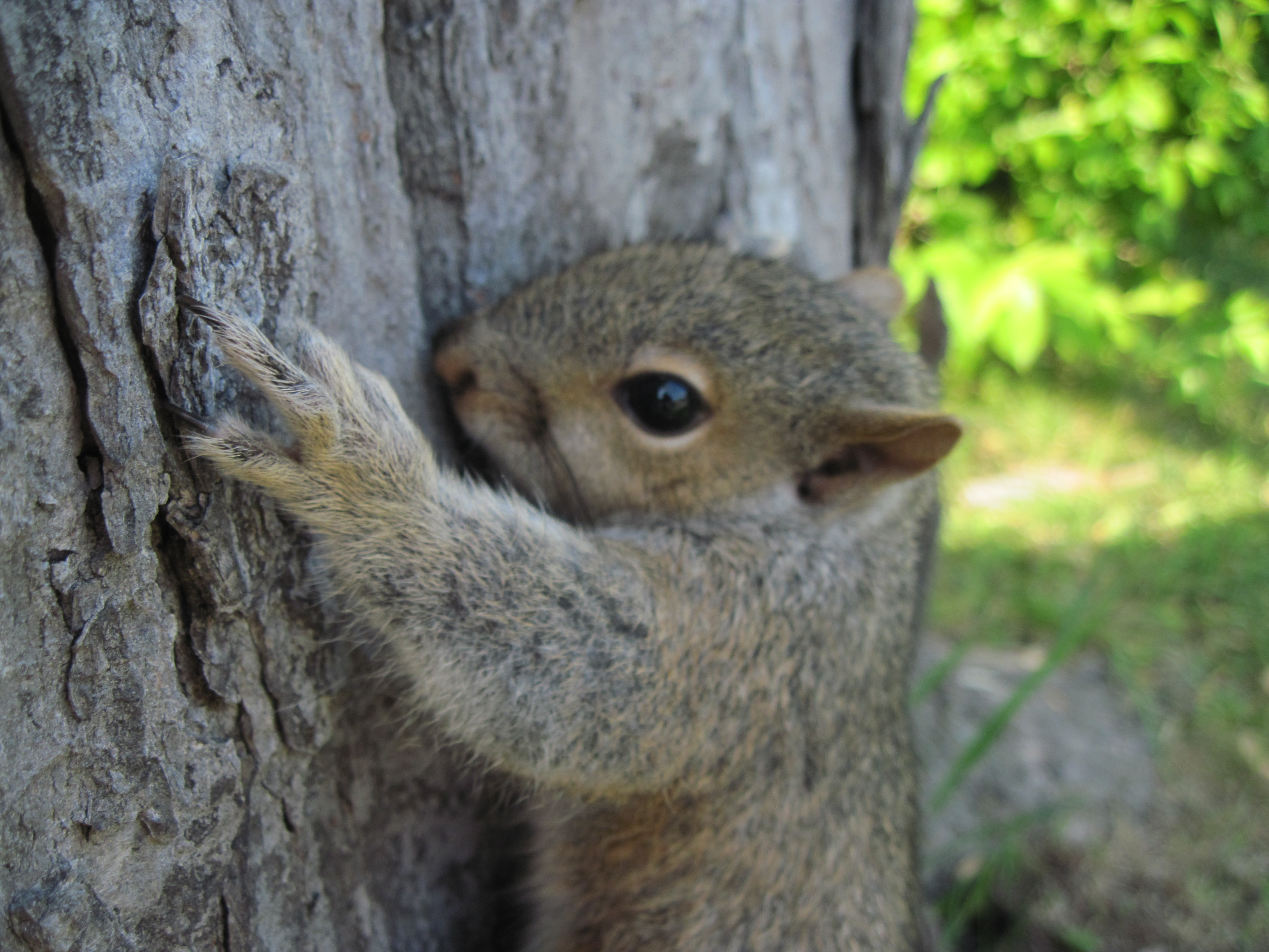 A gray squirrel on a maple tree